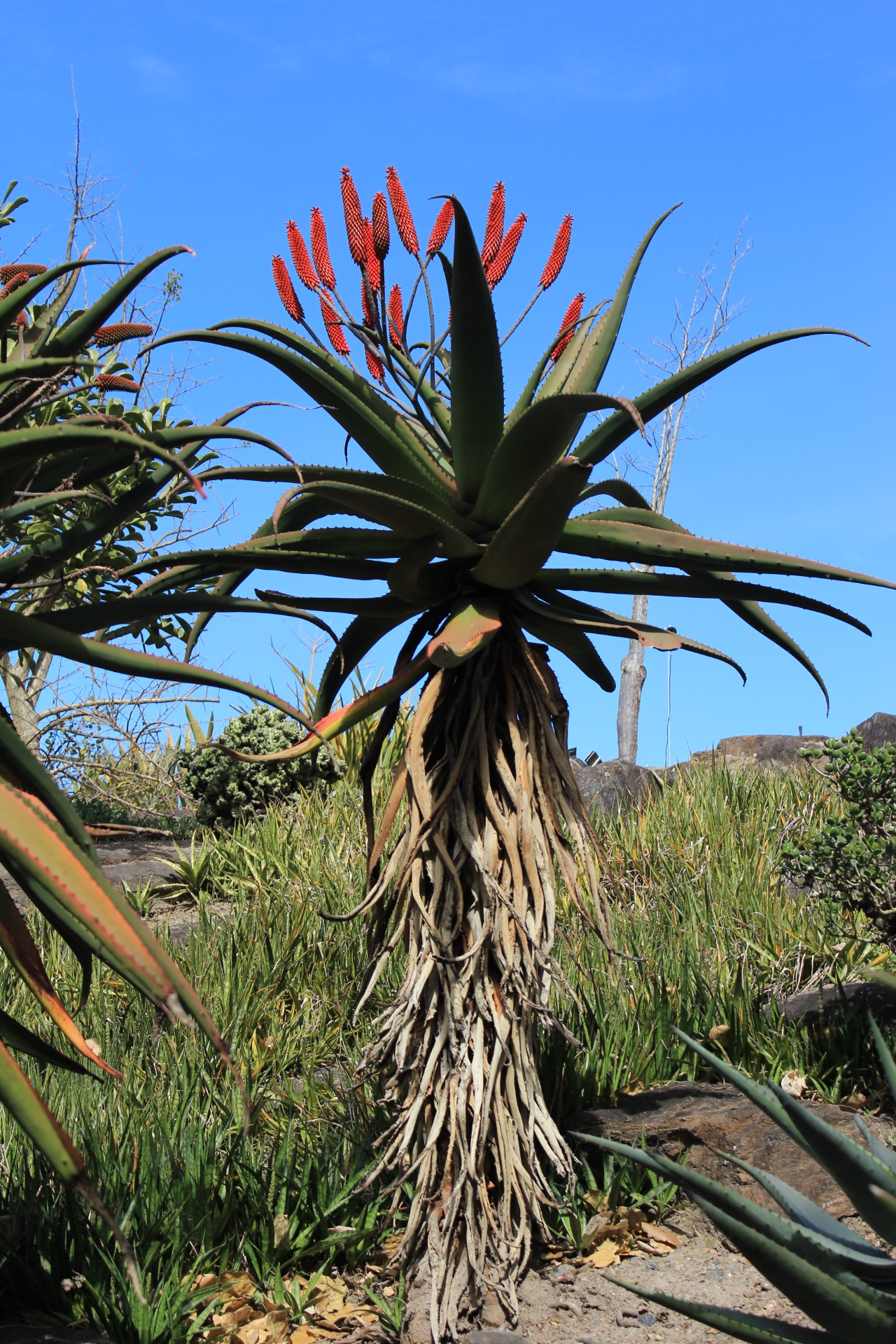 Aloe excelsa flowering in Brisbane's botanic gardens at Mount Coot-Tha, 19th August 2012.